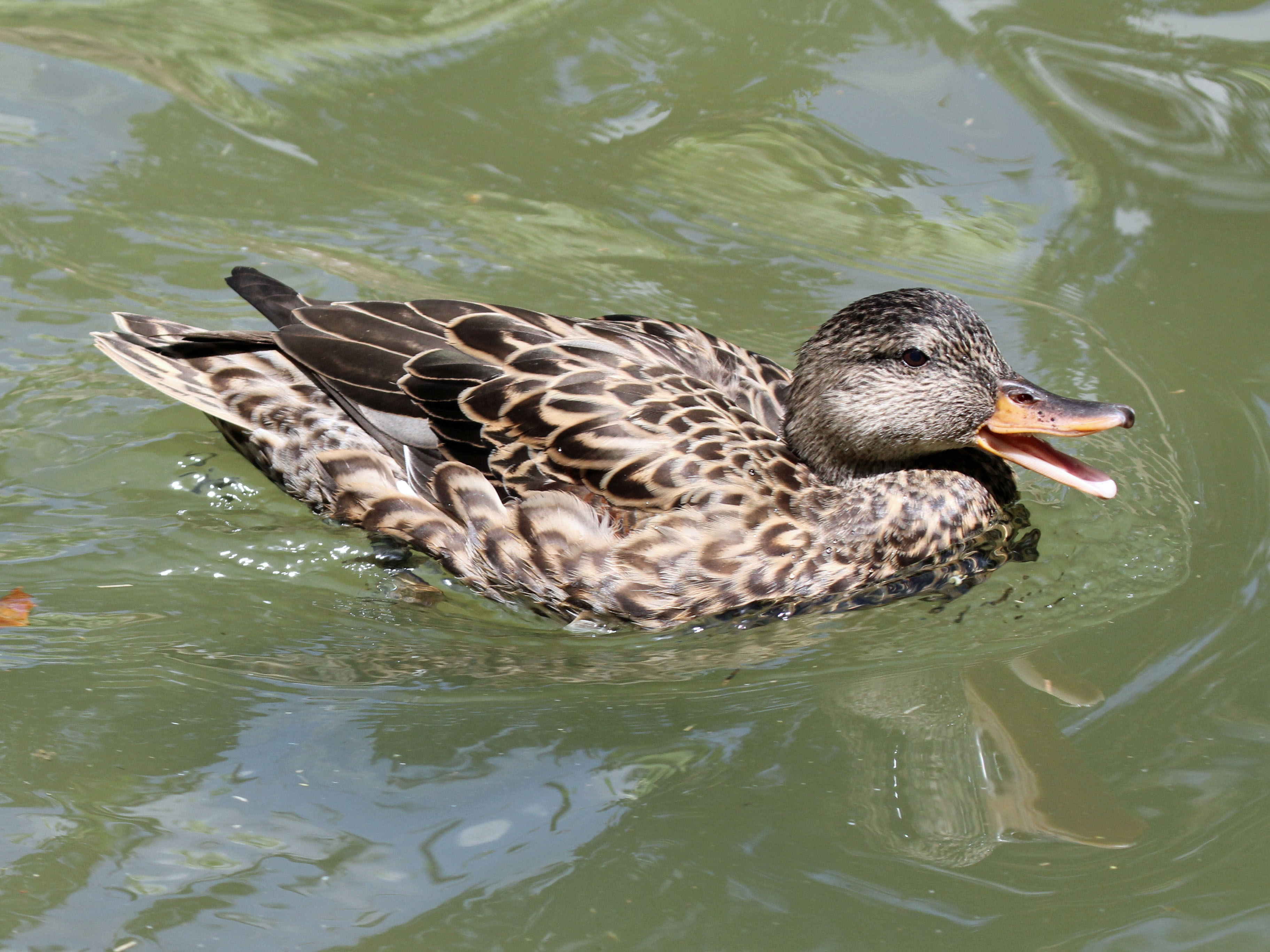 Female Gadwall (Anas strepera) - Sylvan Heights Waterfowl Park, Scotland Neck, North Carolina